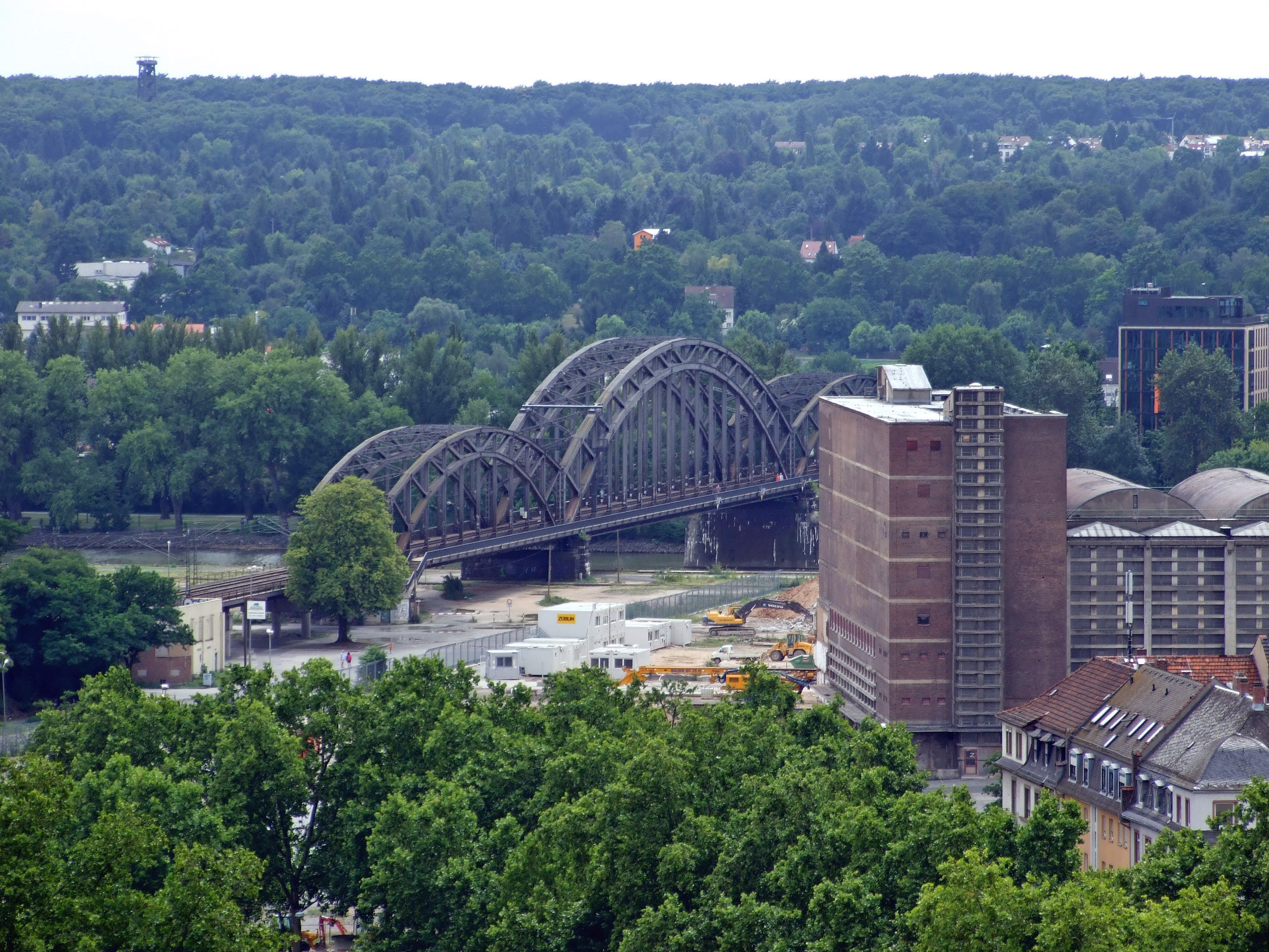 Deutschherrnbruecke over Main river from north in Frankfurt am Main